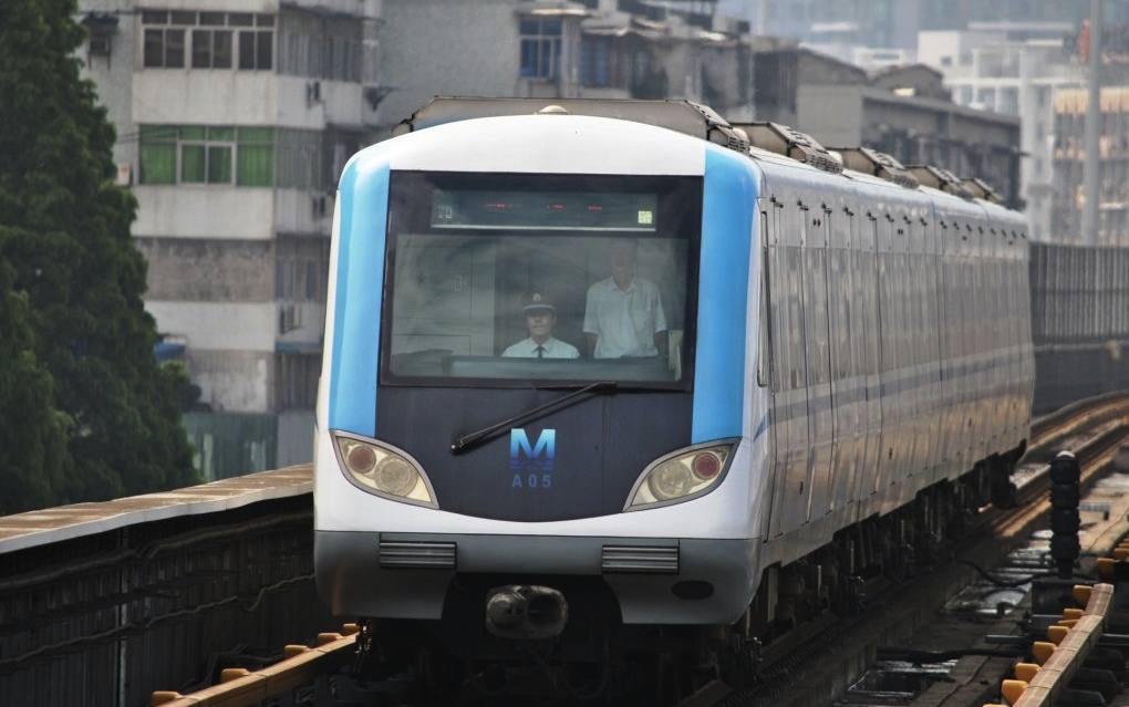 Wuhan metro line 1 train